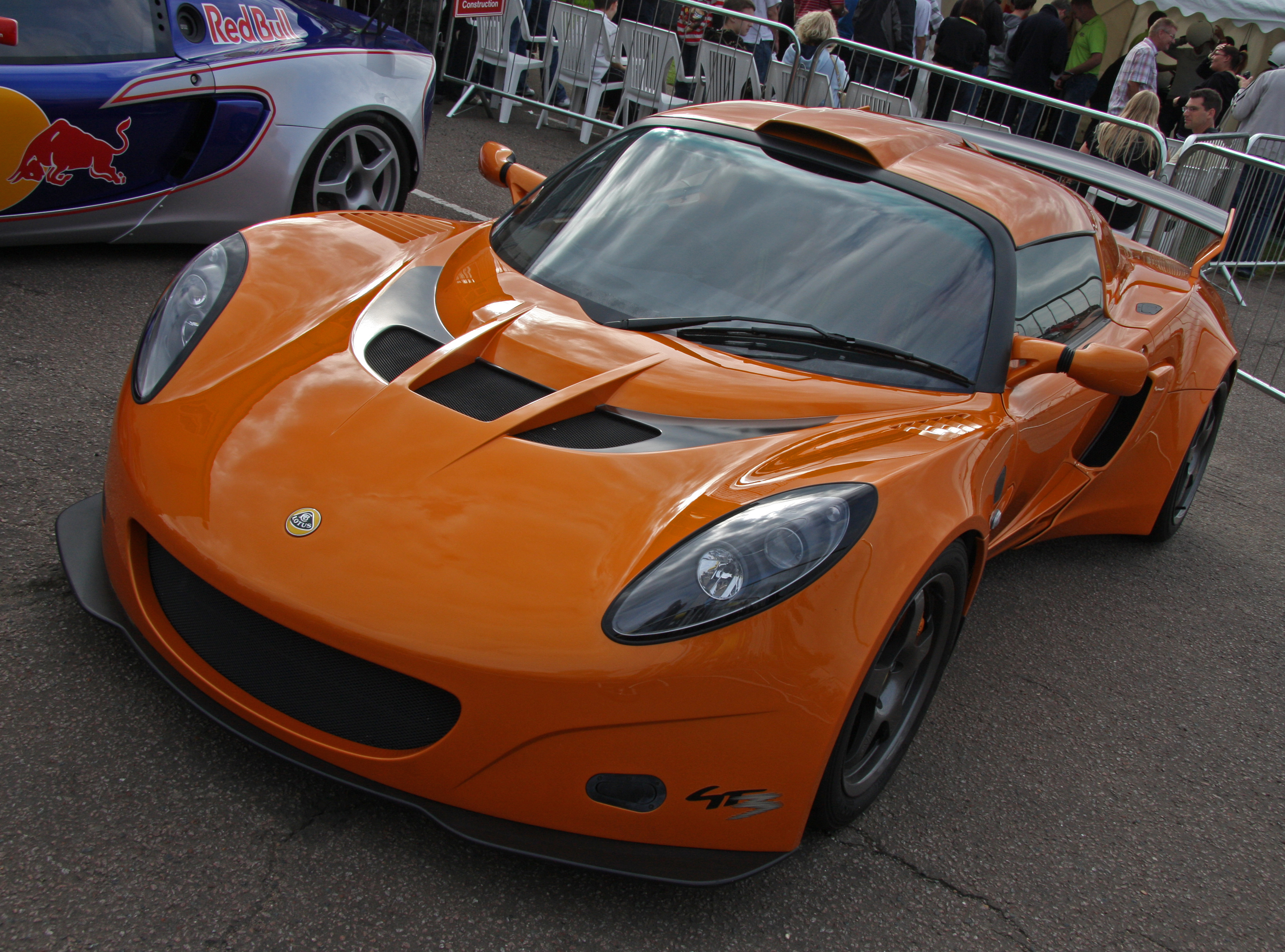 Lotus 60th Celebration